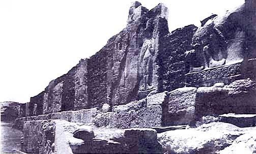 Carved relief in wall of palace complex at Carchemish.